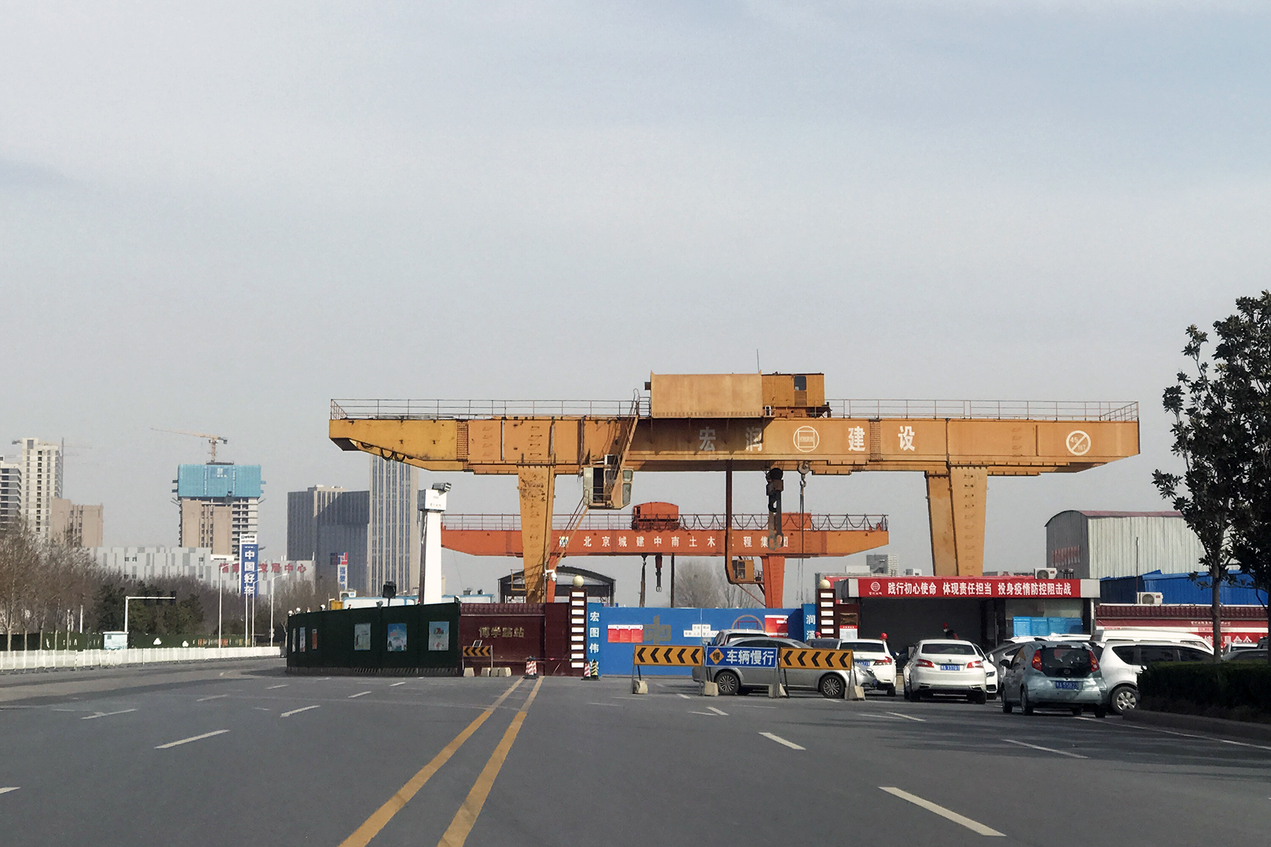 Construction site of Putianxi Station of Zhengzhou Metro